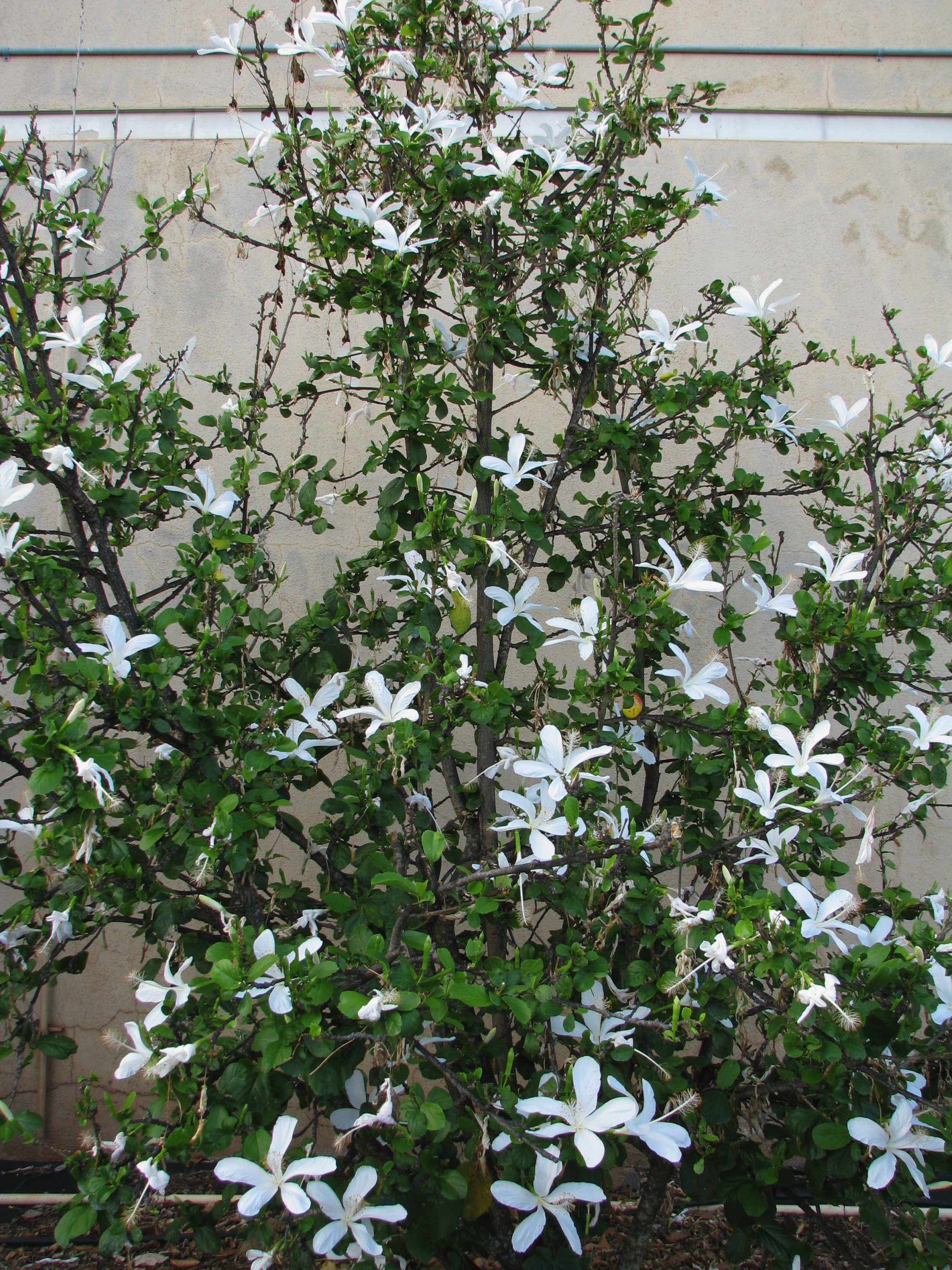 Kokiʻo keʻokeʻo or Molokaʻi white hibiscus Malvaceae Endemic to the Hawaiian Islands Endangered Oʻahu (Cultivated) The two native Hawaiian white hibiscuses, Hibiscus arnottianus and H. waimeae, are the only known species of hibiscuses in the world known to have fragrant flowers! NPH00030